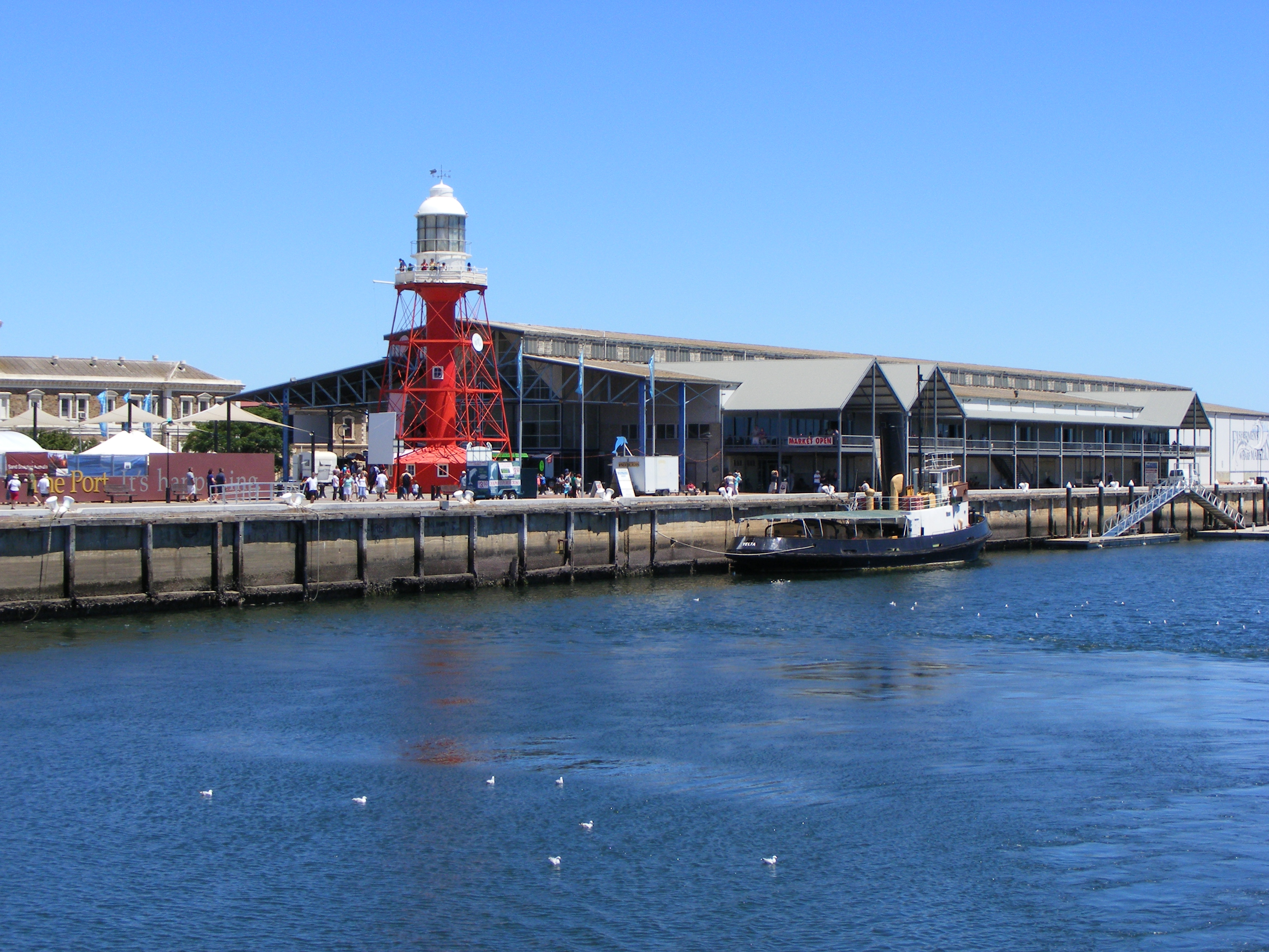 Port Adelaide lighthouse, fisherman's wharf markets, Port Adelaide, South Australia. Port River in the foreground